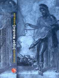 Cover of Prijapov problem, a 1999 essay collection by Igor Mandić.